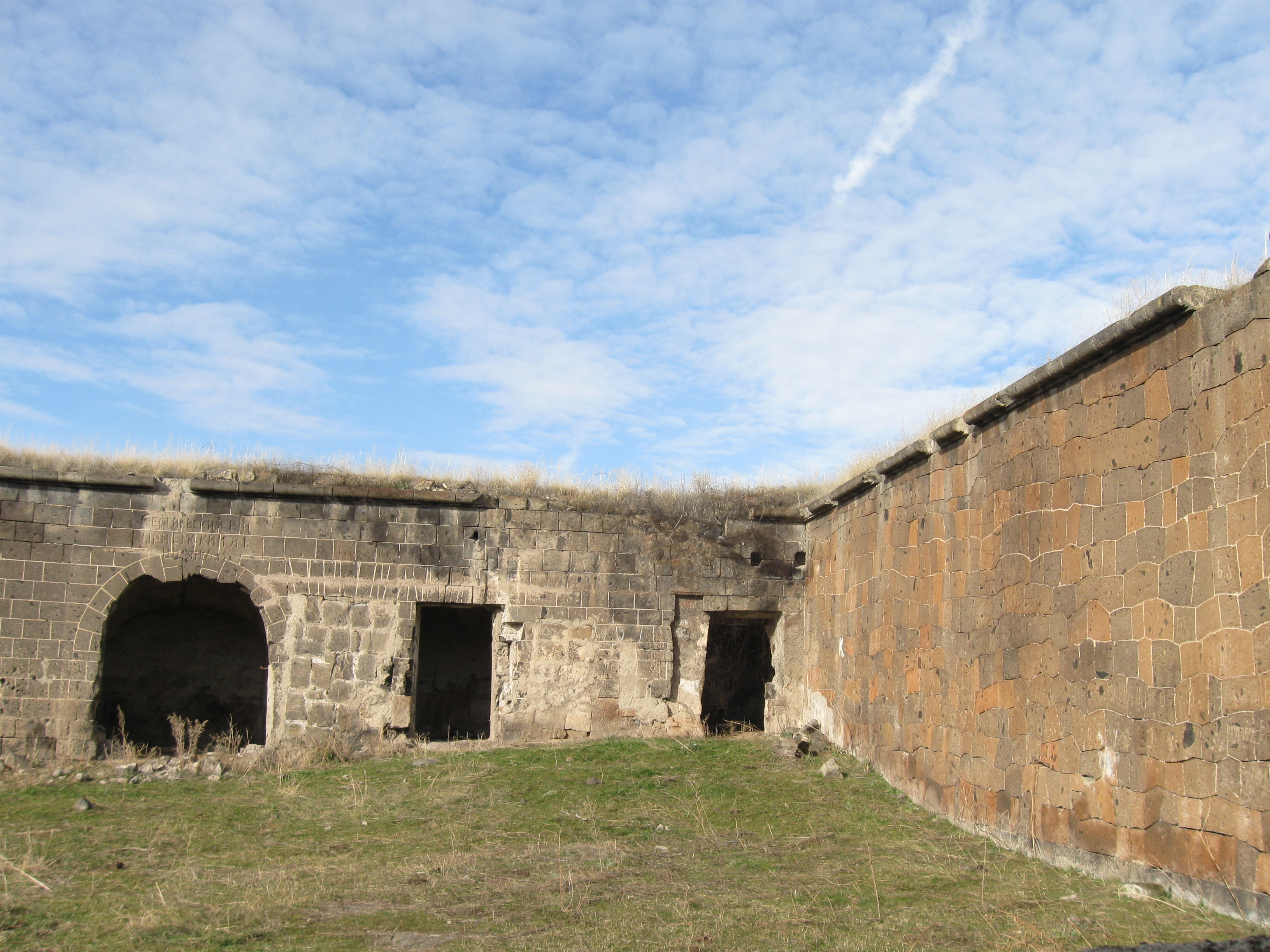 Alexandropol fortress